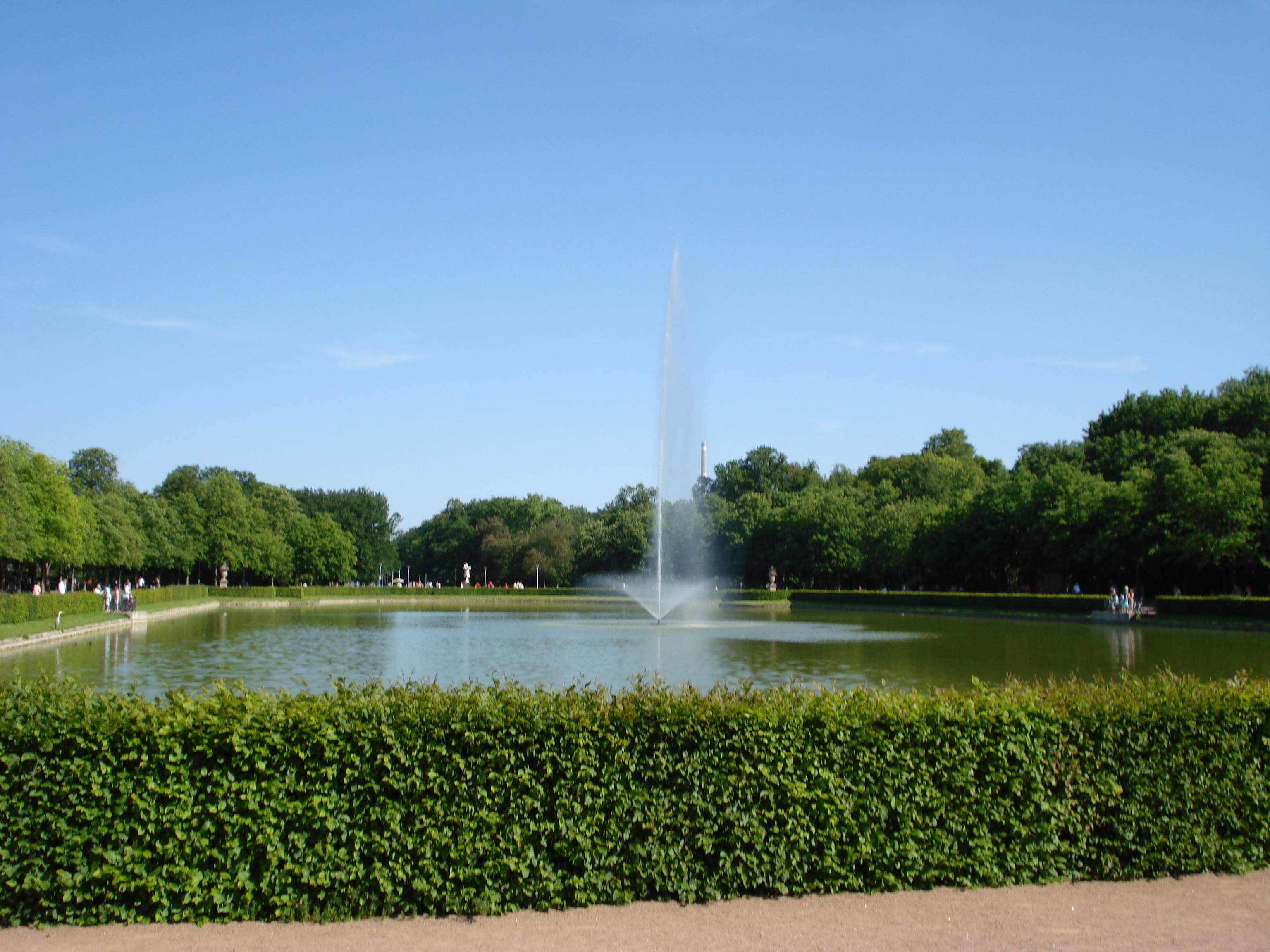 The area of the City Park Dresden (Großer Garten Dresden)